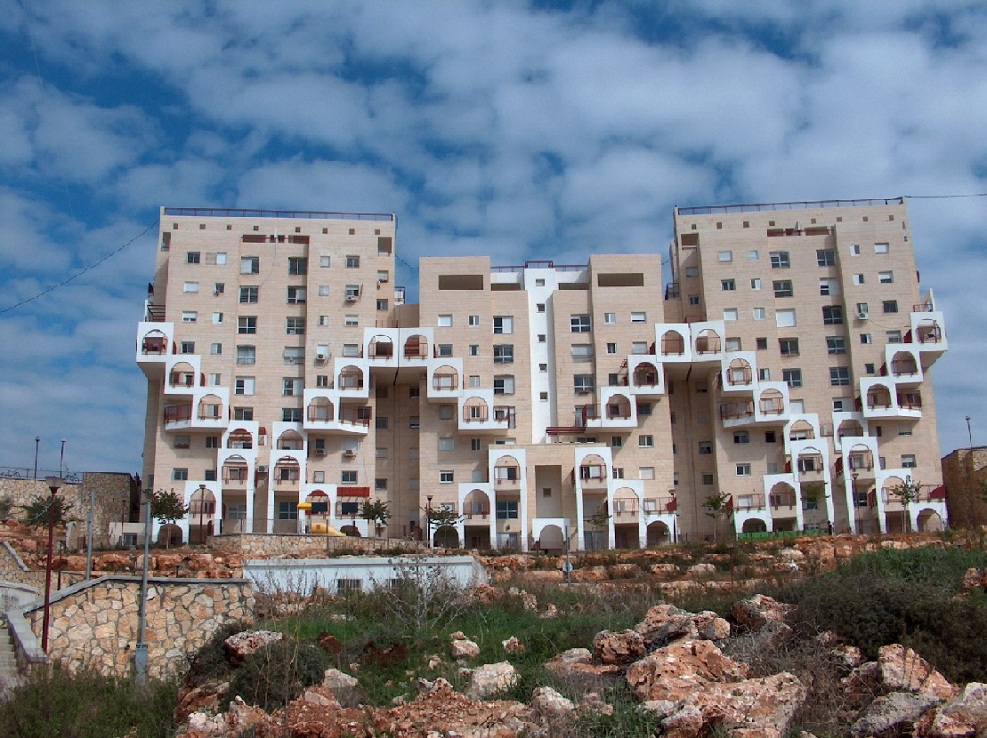 Residential buildings in Modi'in Illit. The buildings has sukkah balconies.